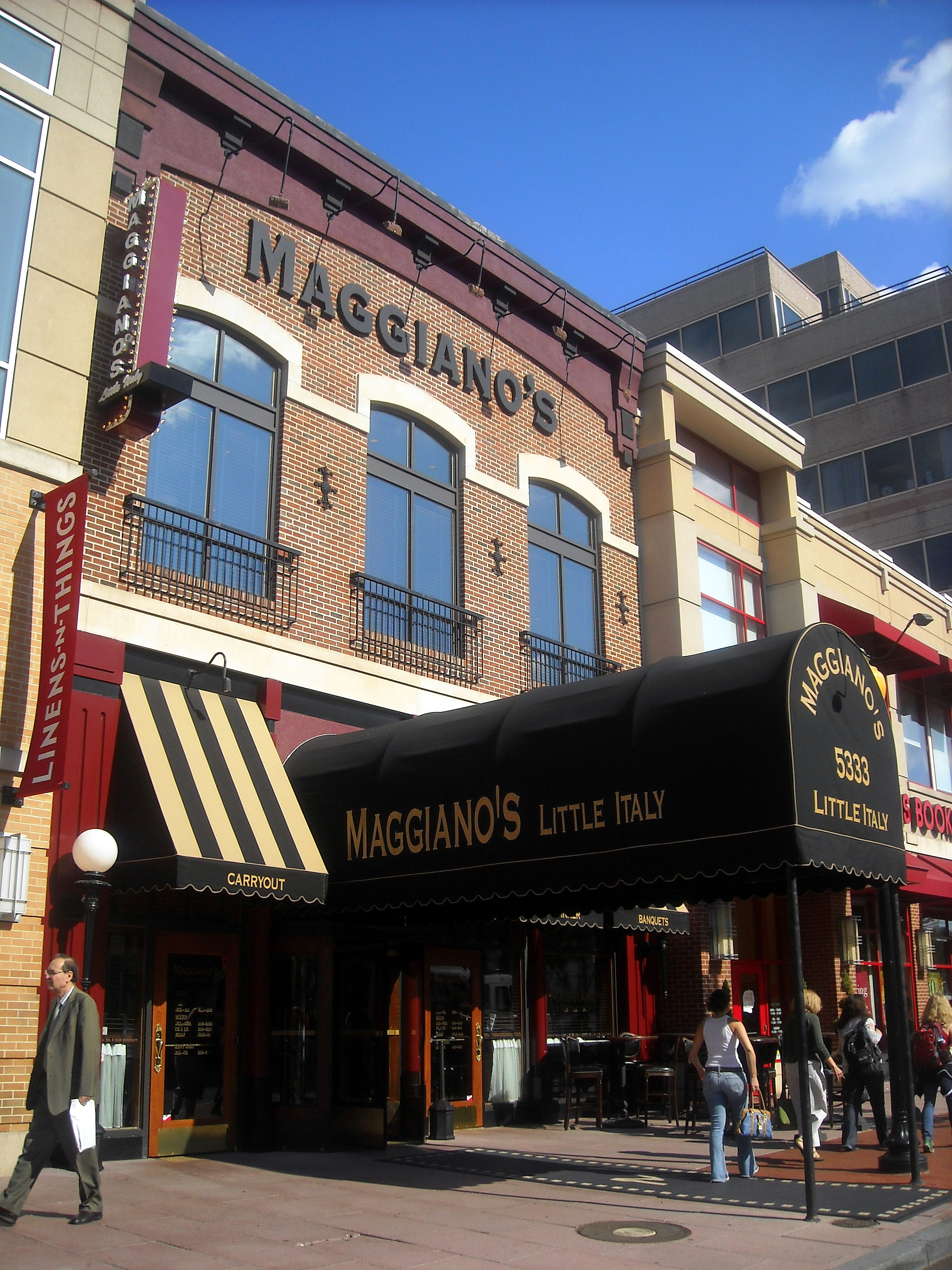 Maggiano's Little Italy located at 5333 Wisconsin Avenue next to Borders , N.W., in the Friendship Heights neighborhood of Washington, D.C.